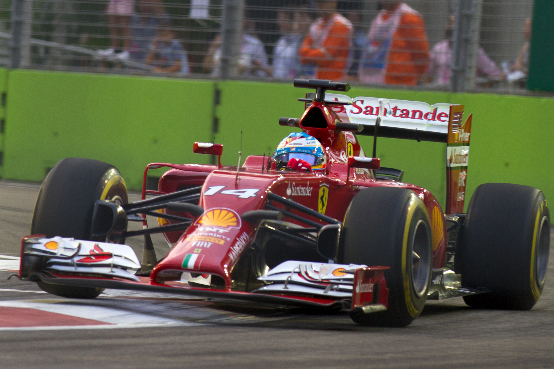 Formula One 2014 Rd.14 Singapore GP: Fernando Alonso (Ferrari)